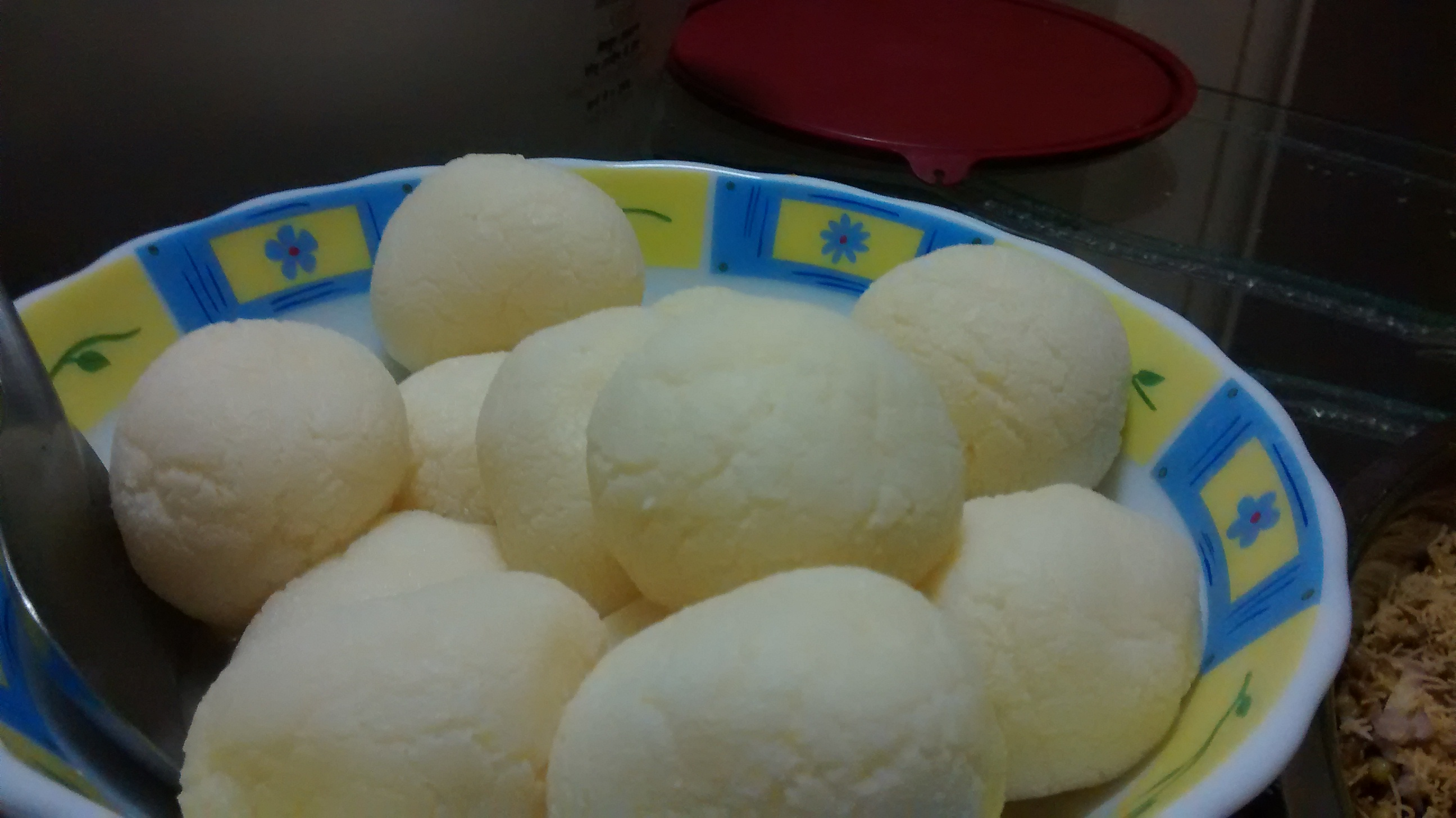 A Bengali Sweet Dish